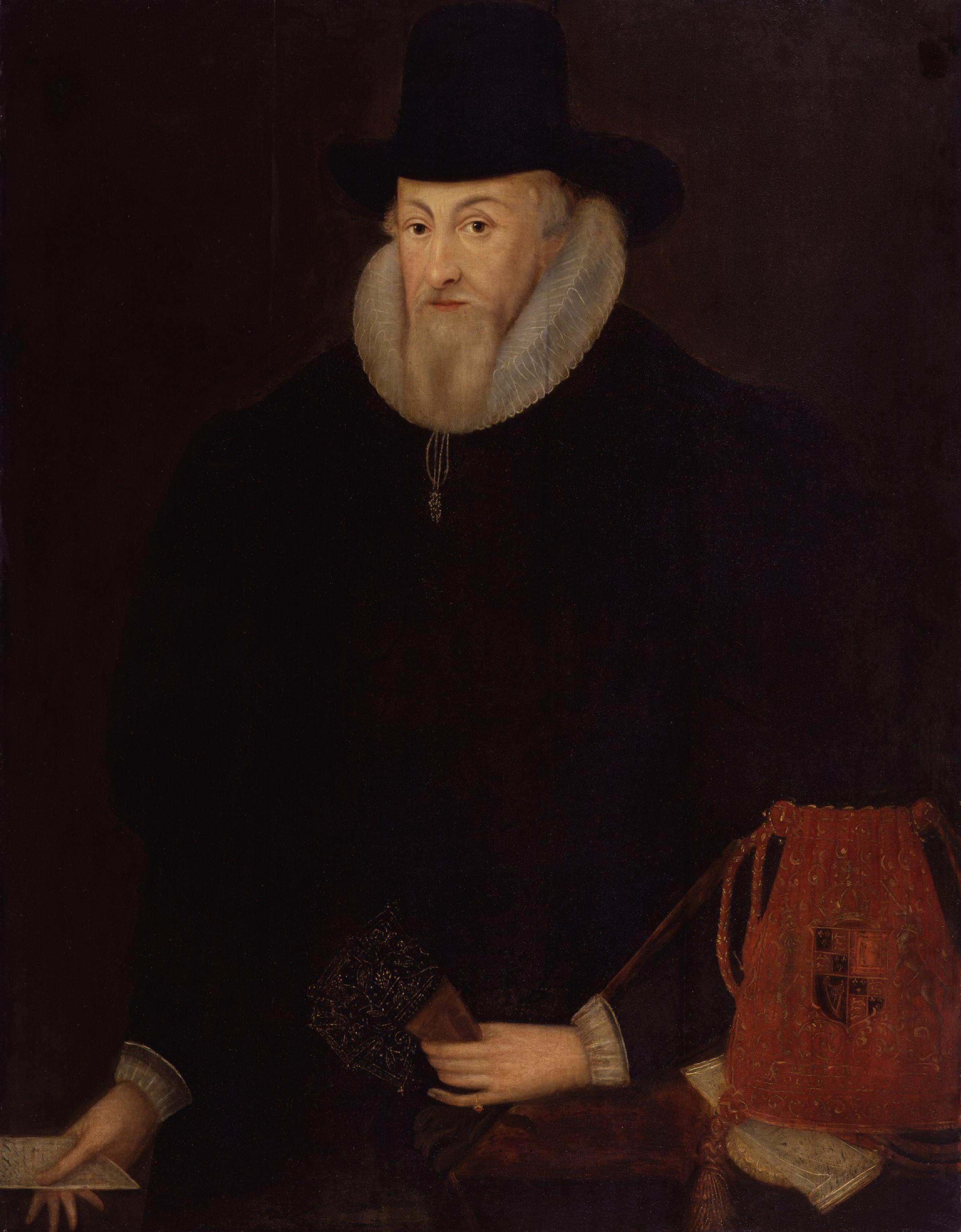 Thomas Egerton, 1st Viscount Brackley, by unknown artist, given to the National Portrait Gallery, London in 1950. All images in this batch have an unknown author, but there is strong evidence it was first published before 1923 (based mainly on the NPG's estimated date of the work).